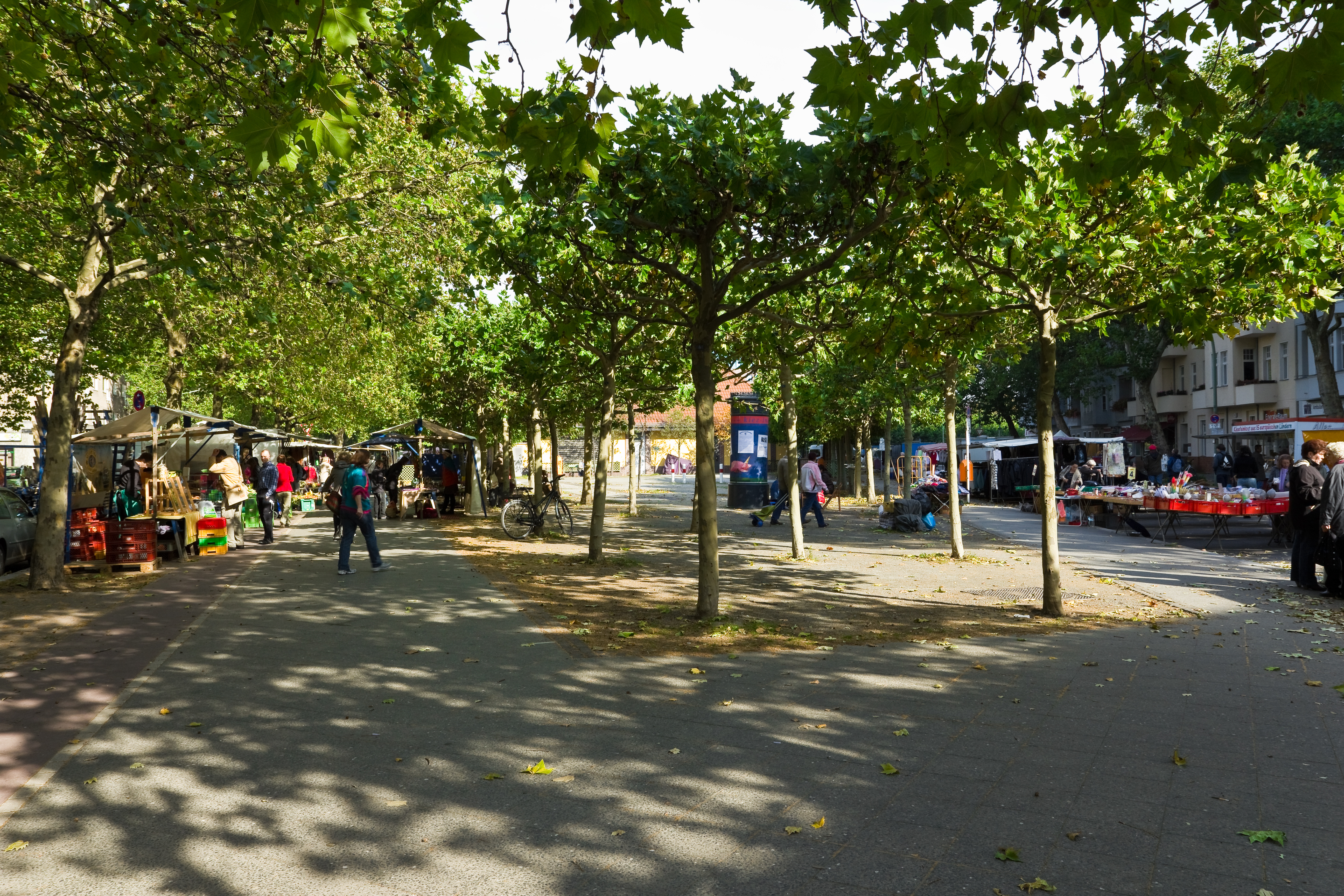 Weekly farmer's market at Mierendorffplatz (souther part) in Berlin Charlottenburg